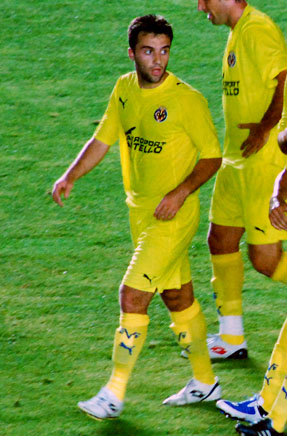 El Villarreal celebrando un gol, en un amistoso en pretemporada ante el Nástic. Giuseppe Rossi.